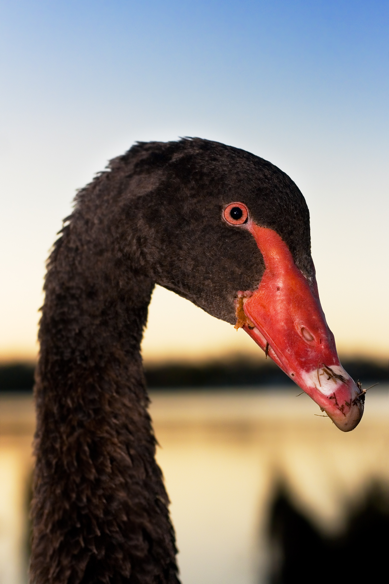 Black Swan (Cygnus atratus) Profile at sunset, Claremont, Tasmania, Australia Camera data Camera Canon EOS 400D Lens Canon EF 50mm f1.8 Focal length 50 mm Aperture f/4 Exposure time 1/1600 s Sensivity ISO 400